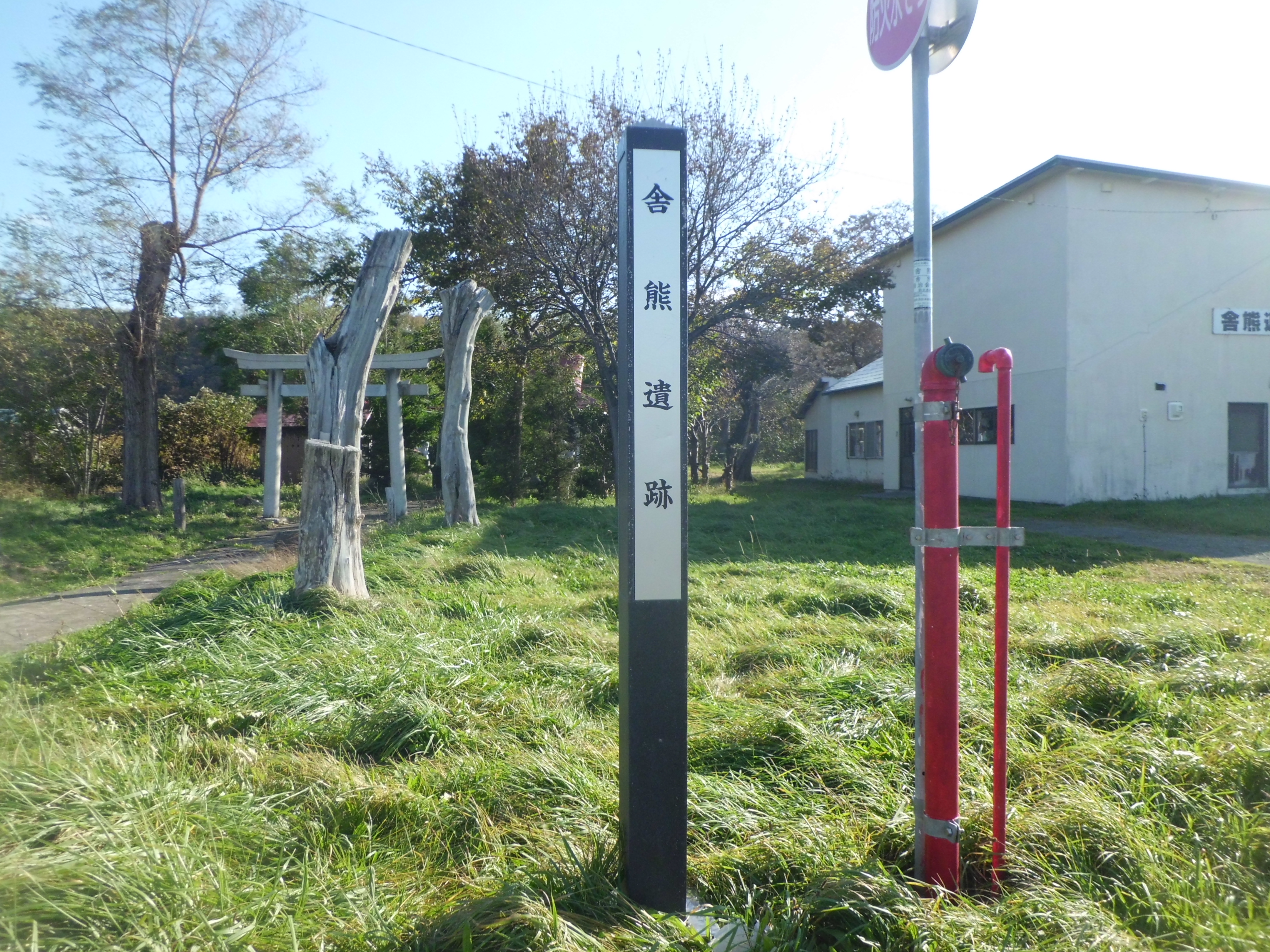 Shaguma Ruins